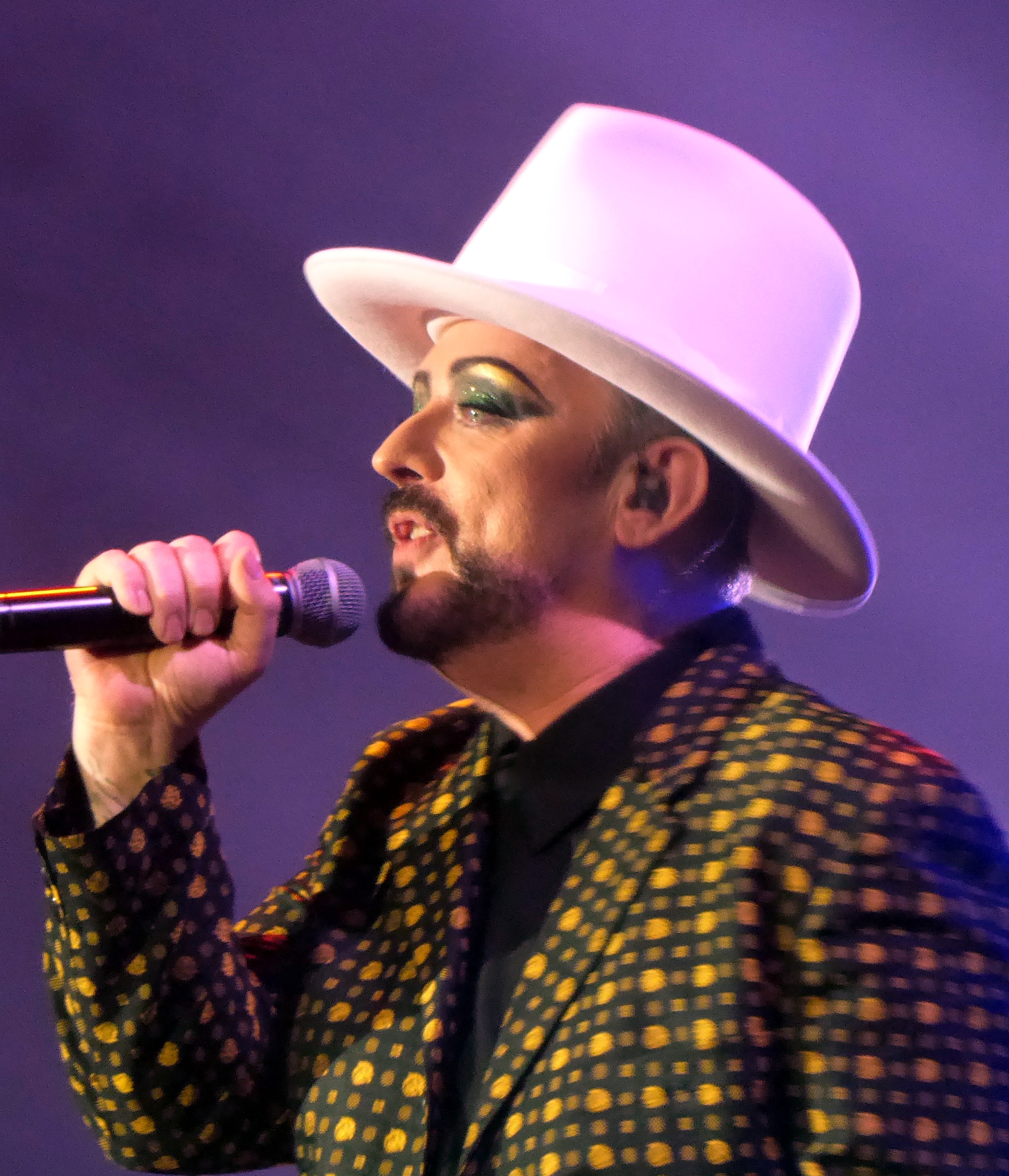 Boy George singing at The SSE Arena Wembley on14th December 2016